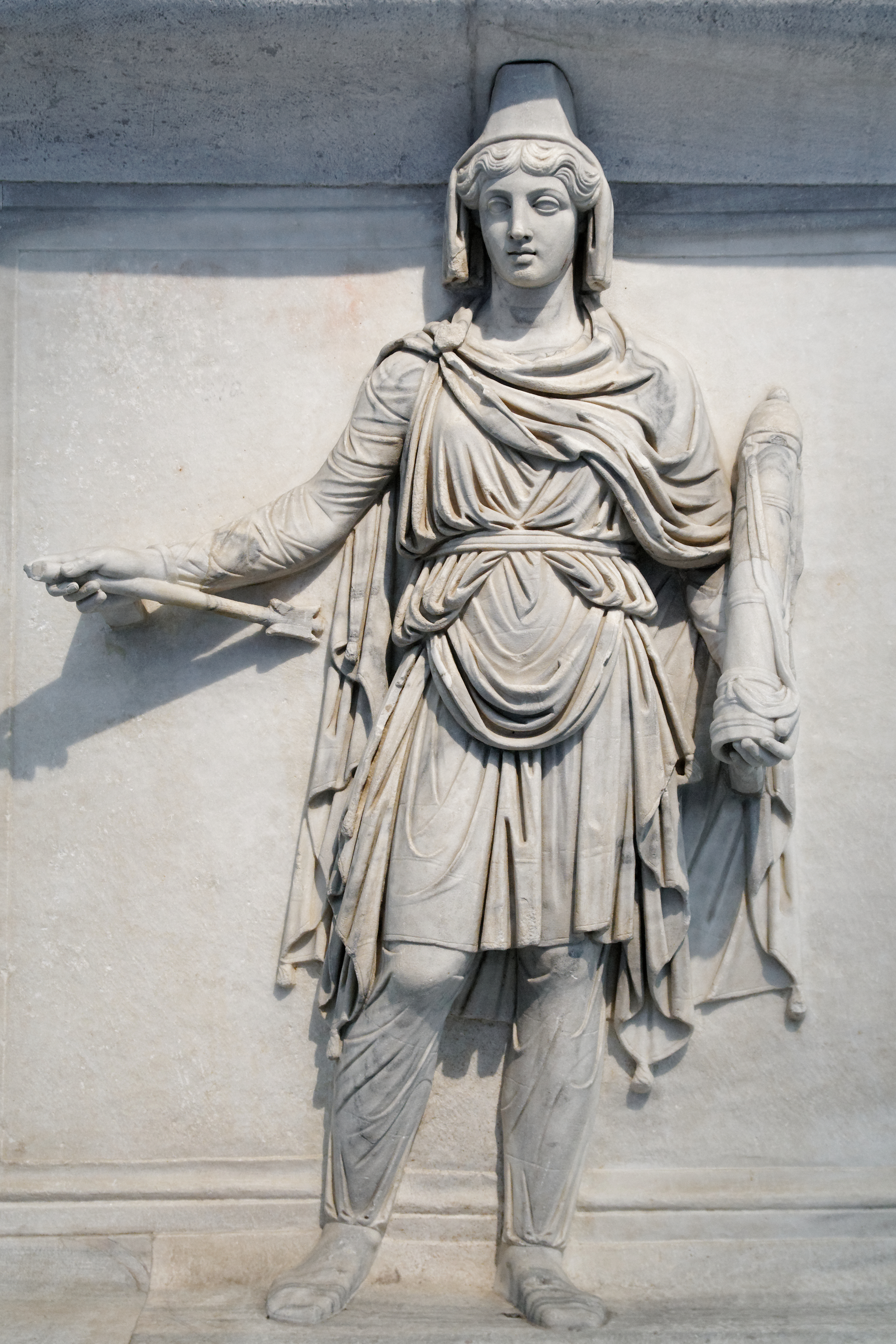 Armenia, one of the representations of Roman provinces (Parthia or Armenia) from the Hadrianeum, temple to the deified Hadrian erected by Antoninus Pius in 145.